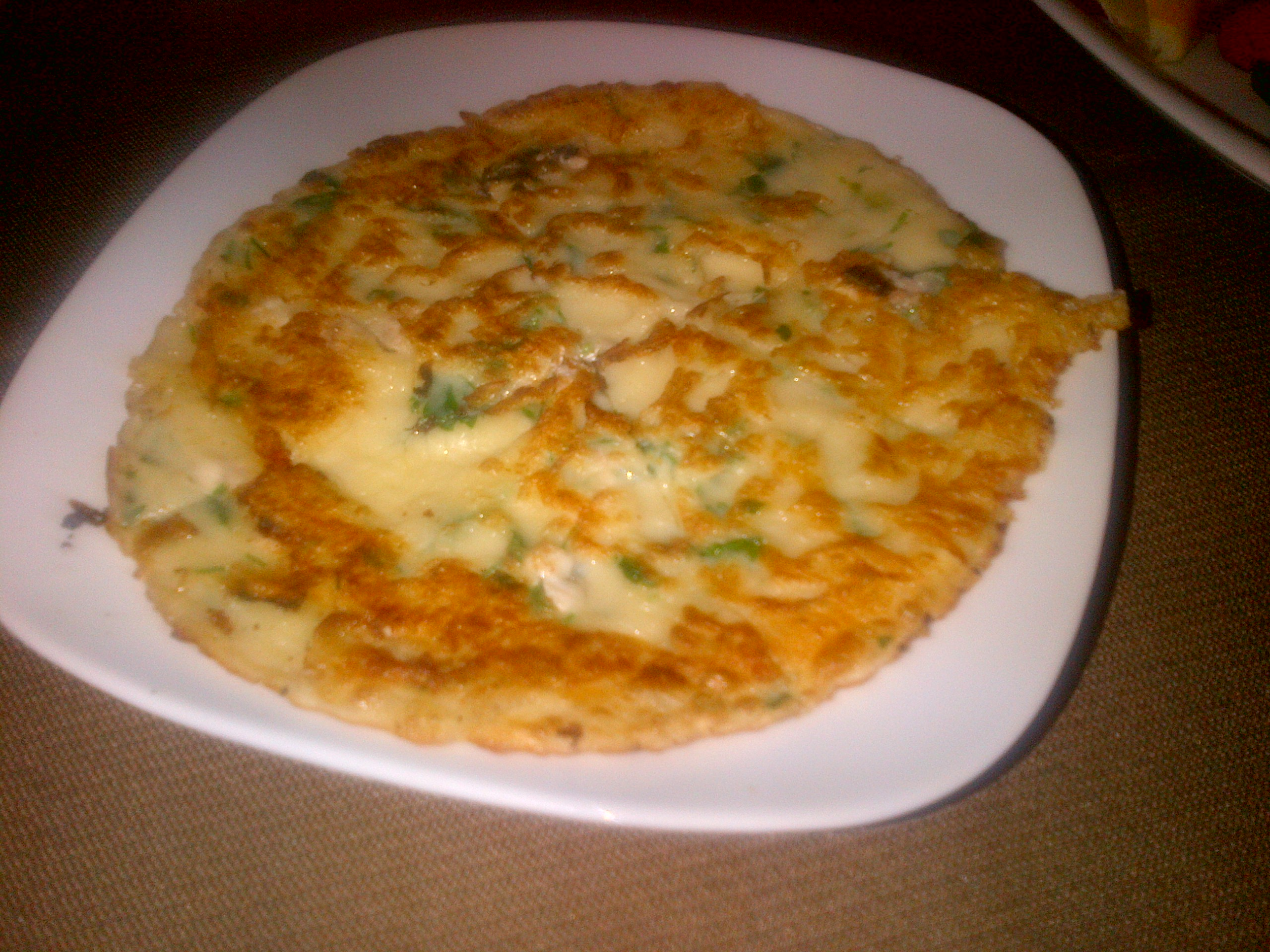 Kaygana, an egg dish from the Black Sea Region, Turkish cuisine.